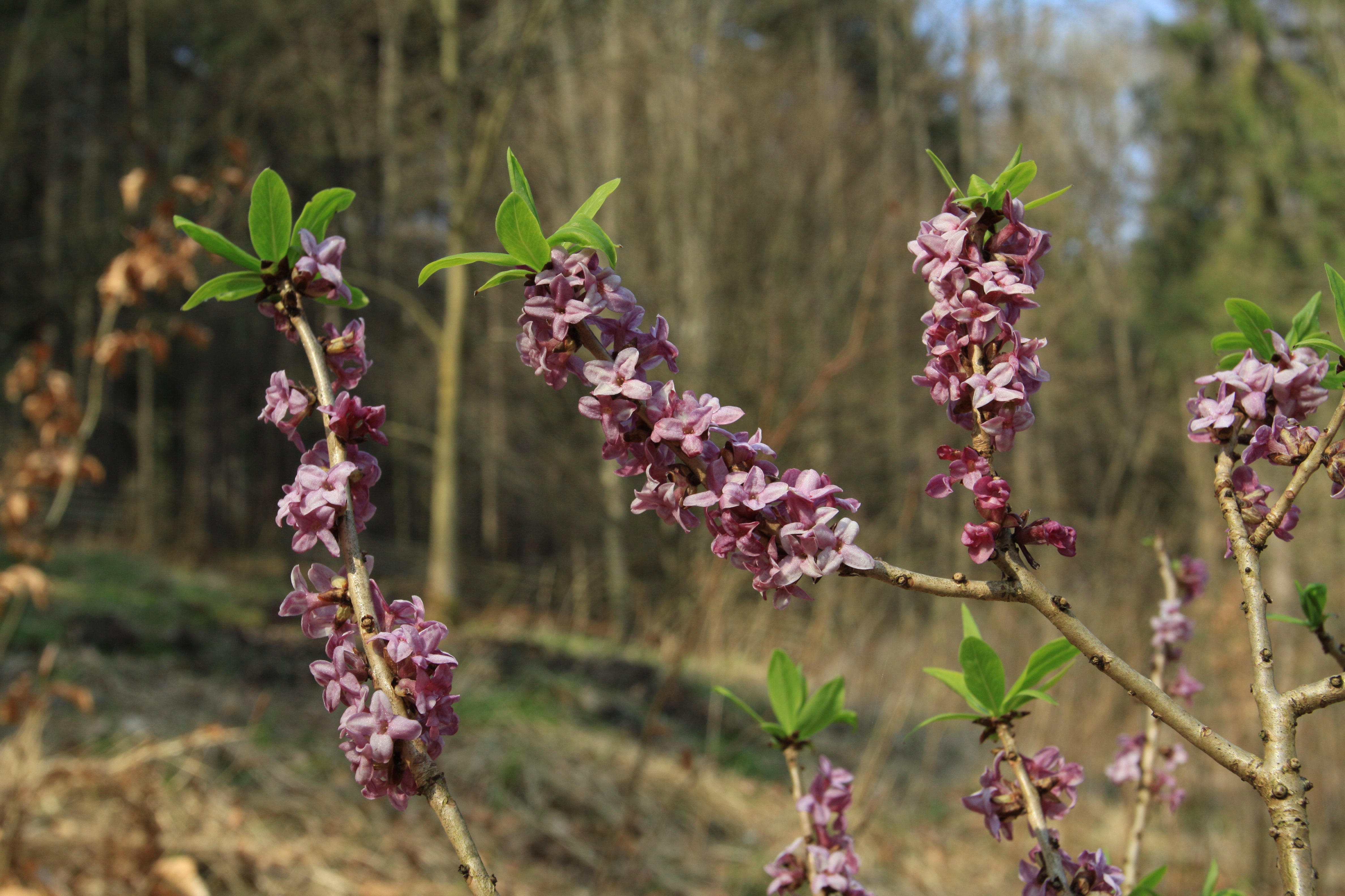 Daphne mezereum in national natural monument Bílichovské údolí, Kladno District, Czechia